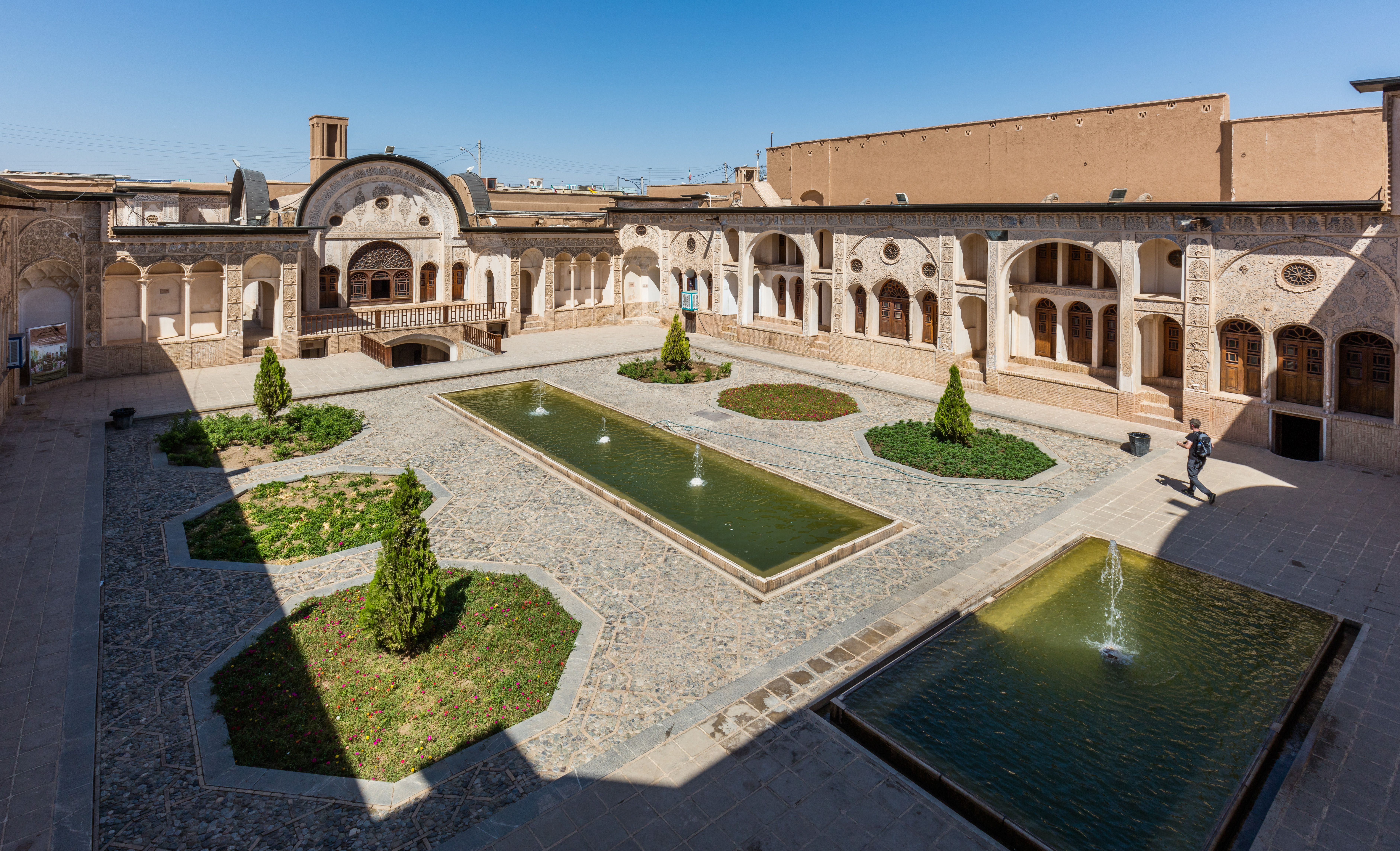 Tabatabaeis Historic House, Kashan, Iran